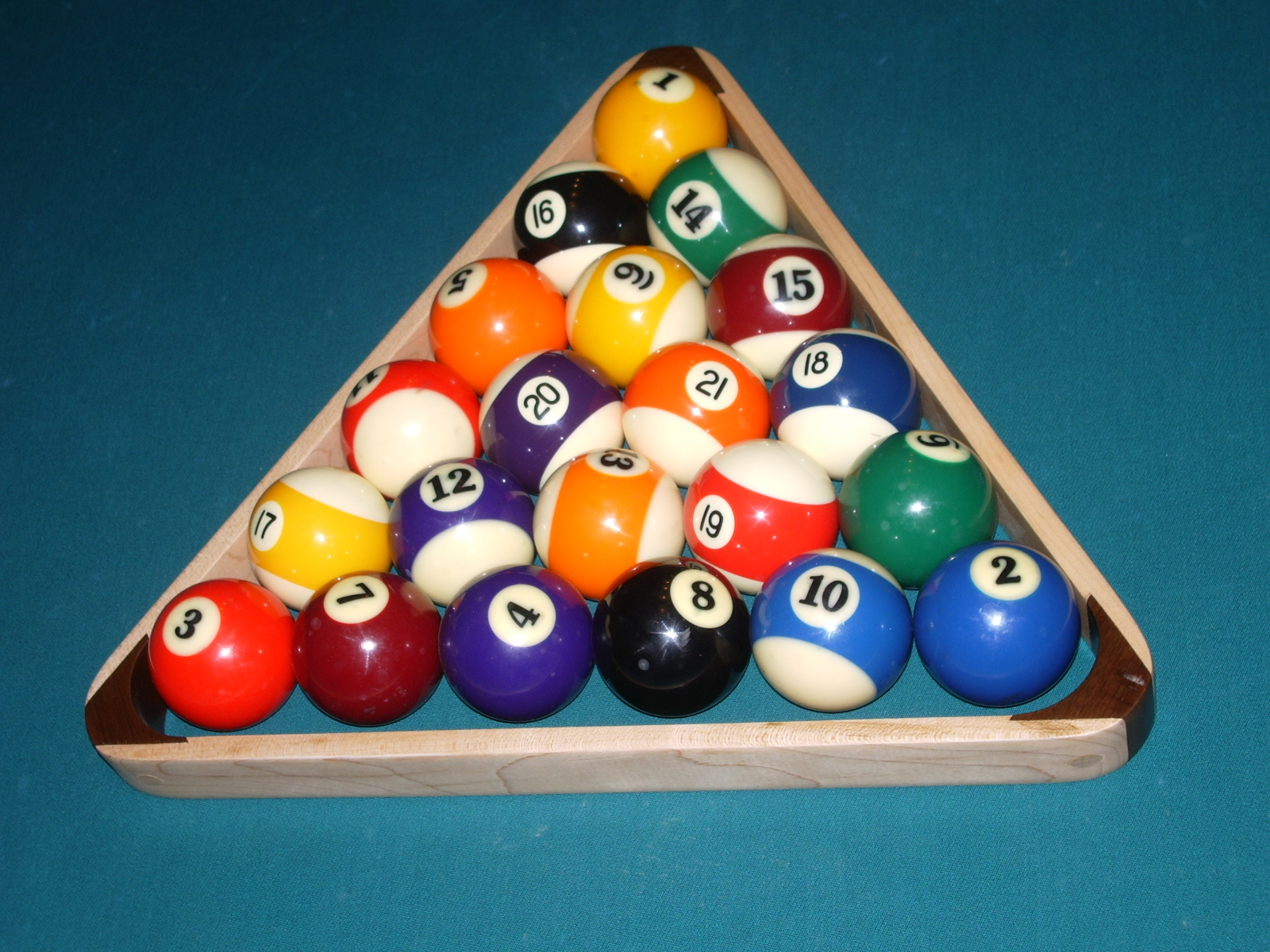 Racking up a game of baseball pocket billiards (racker's view) using an oversized triangle rack for 21 balls. The 1 ball on the foot spot, the 2 on the racker's right corner, the 3 opposite, on the left, and the 9 in the middle of the third row from the apex. All other balls are placed randomly. The balls are (16-21) an Aramith baseball add-on set, and (1-15) Aramith Super Pros.